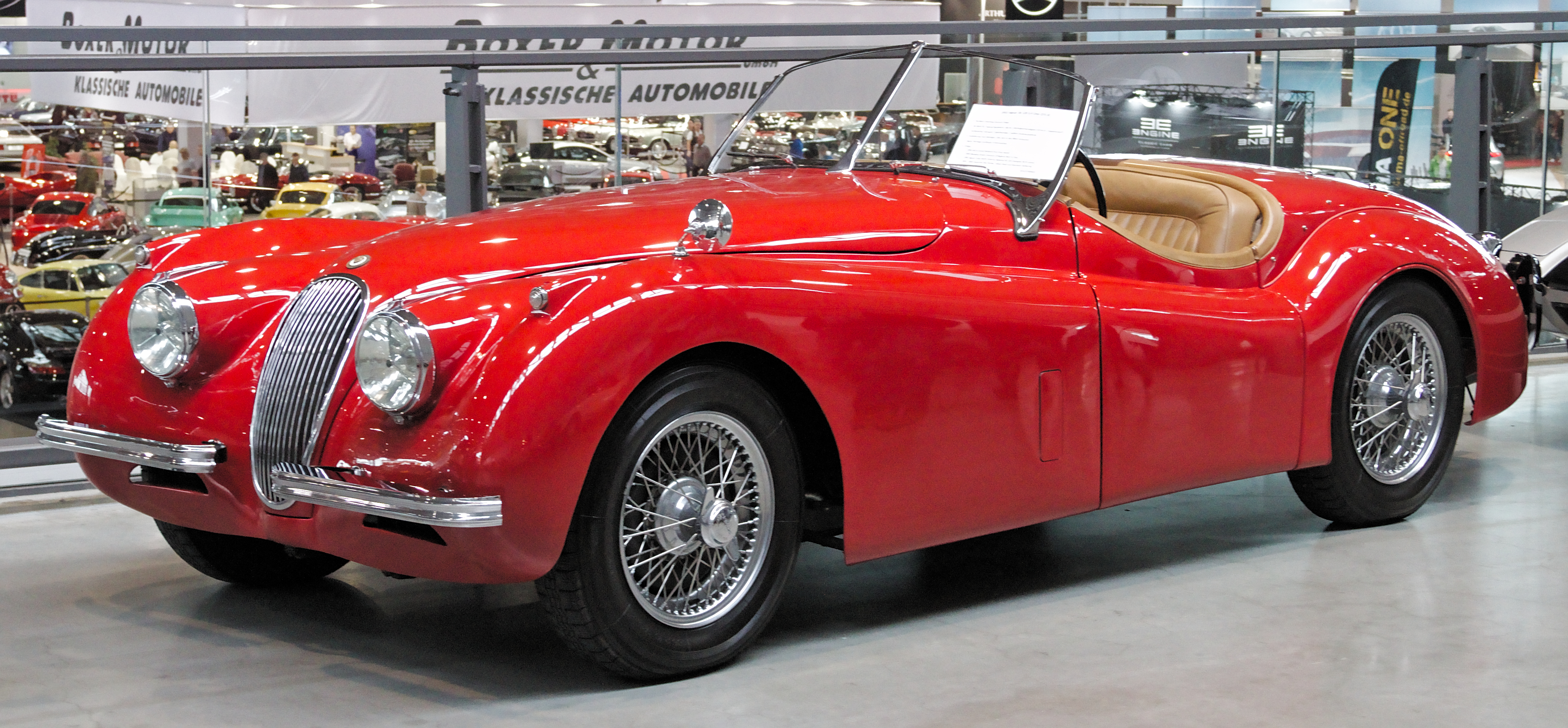 Jaguar_XK120_(1953)_Open_Two-Seater at Retro Classics 2020